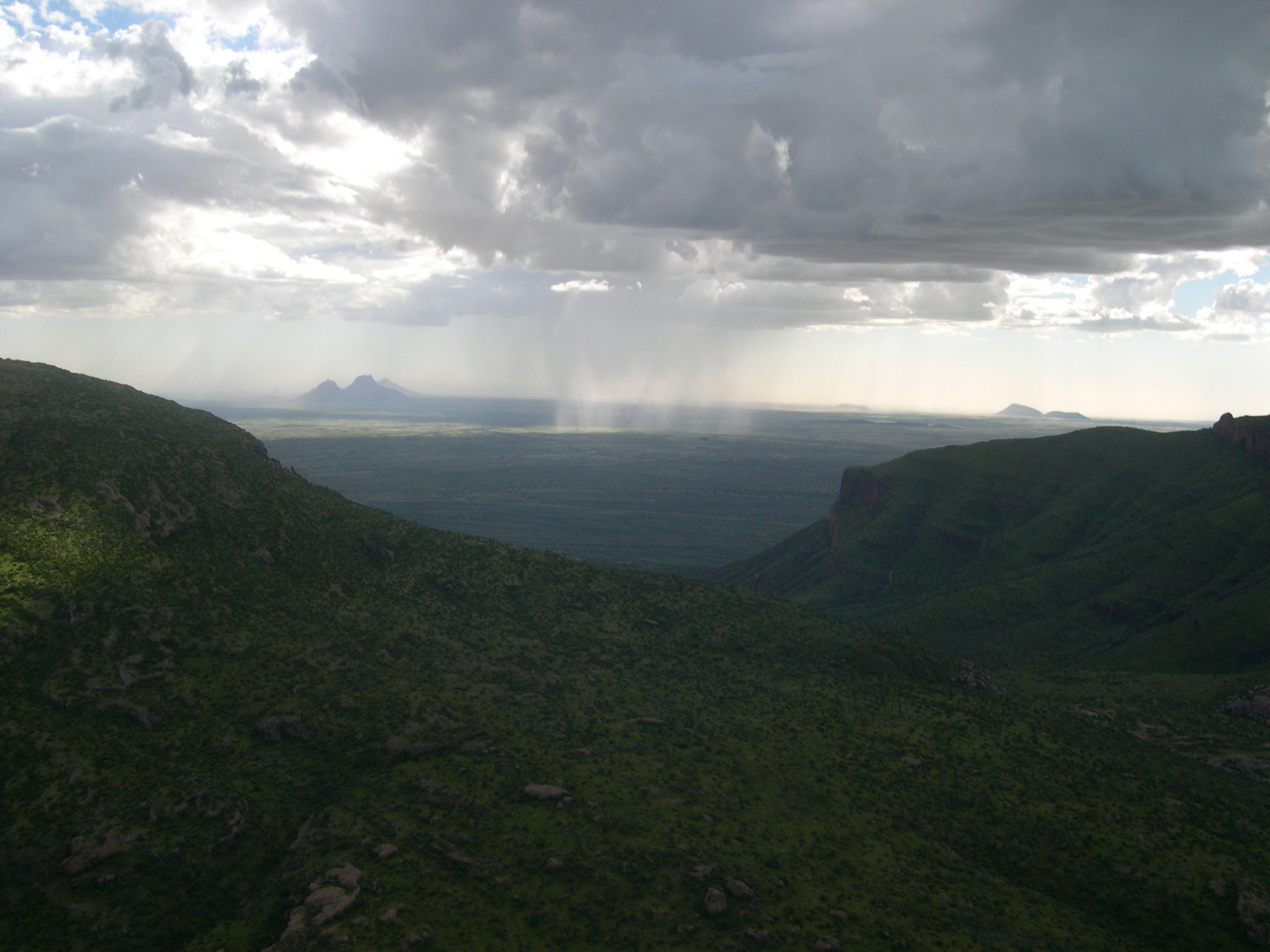 Heavy rainfall between Erongo Mts. and Spitzkoppe